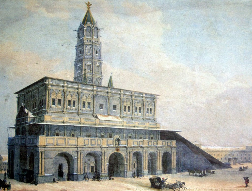 Suharev Tower